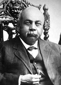 Greenwood "Green" McCurtain (1848–1910), Principal Chief of the Choctaw Nation